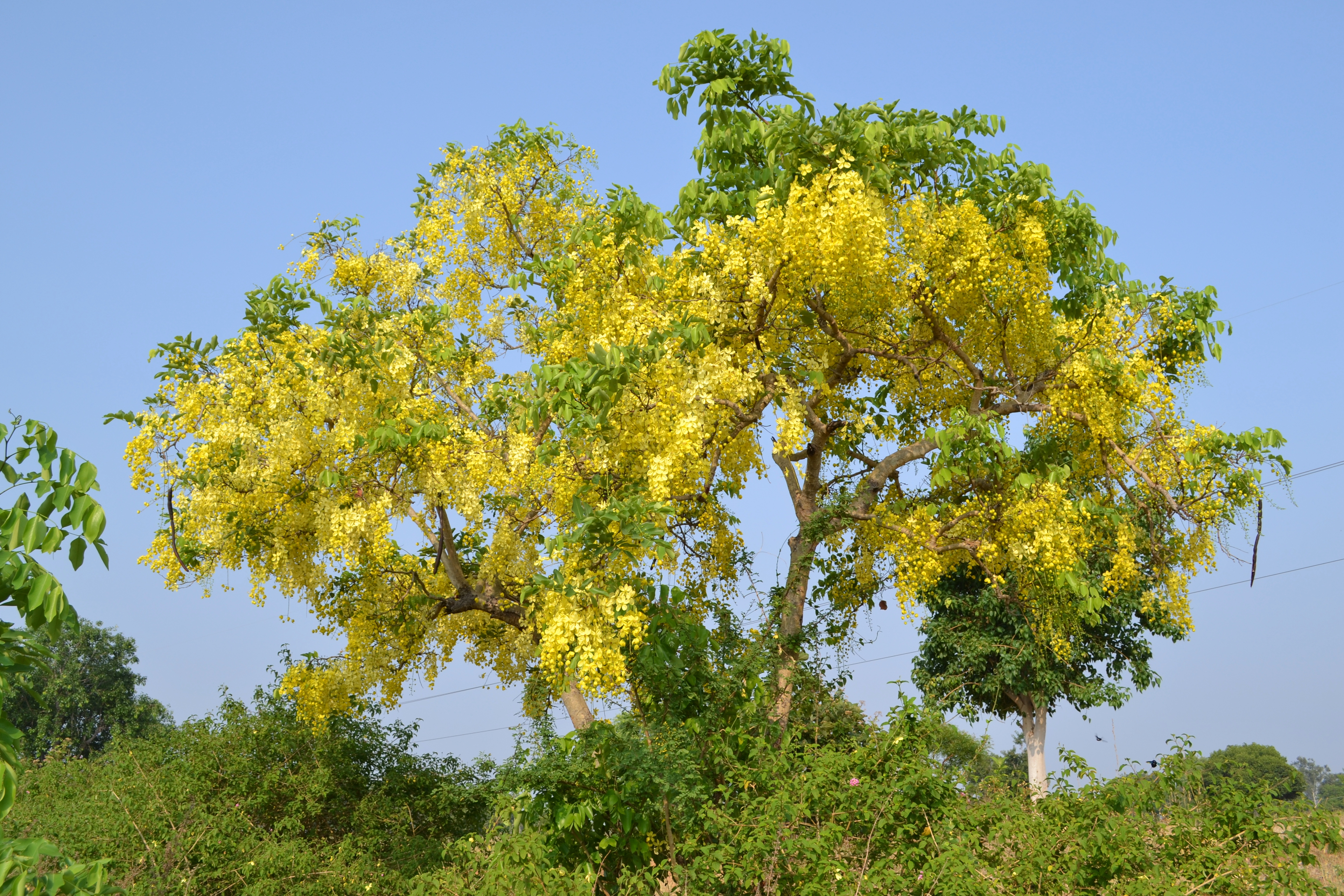 Indian Laburnum- a member of the Leguminosae family. Taken in Kanakpura road, Bangalore April 2014